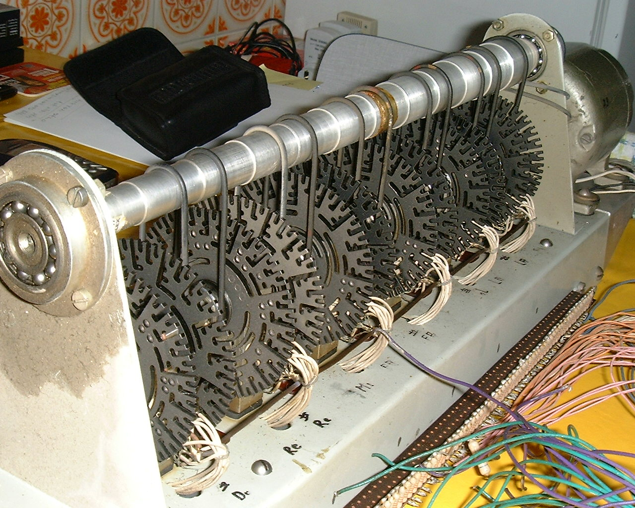 This is a prototype tonegenerator where there is no proof of any licence , it came out of the former factory of Hammond Organ Antwerp in Belgium , it must have been made during the 1954/56 period , the Hammond factory in Antwerp dissapeared in the 70's as The 'Hammond' brandname was taken over by other company's later on . the prototype is in my possesion .It was given to me by the son of the deceased Mr De Bondt , Belgium